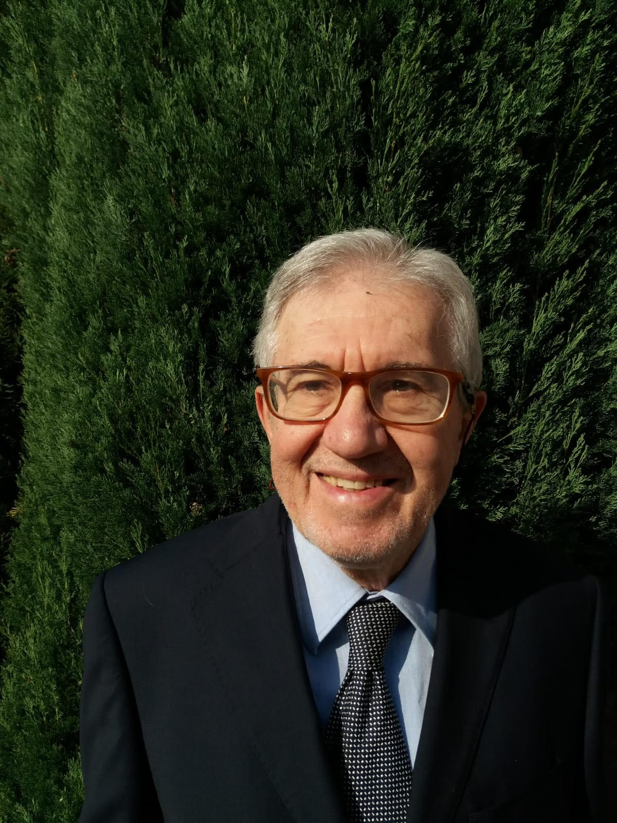 photo of Luigi Lugiato